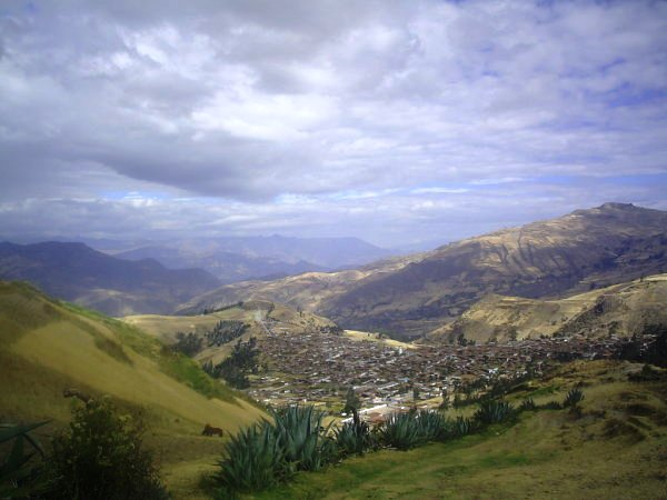 A panoramic view of the city of Santiago de Chuco, seen from the hill San Cristobal, the viewing-point of our city